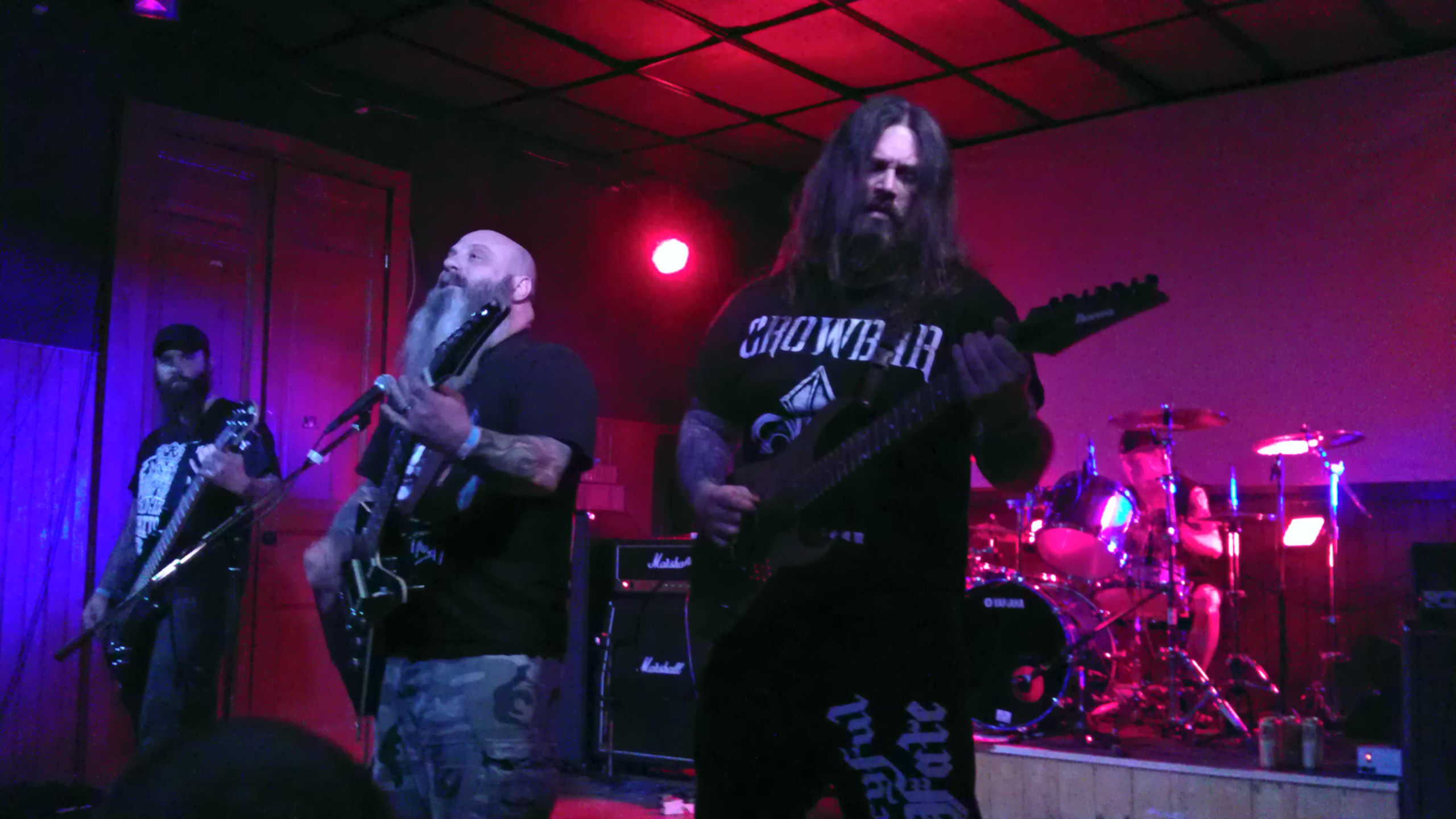 Crowbar performing at Mod club, Saint Petersburg, Russia. Left to right: Jeff Golden, Kirk Windstein, Matthew Brunson, Tommy Buckley.